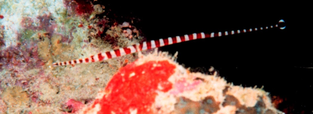 A many-banded pipefish (Doryrhamphus multiannulatus) in the Gulf of Aqaba region of the Red Sea.